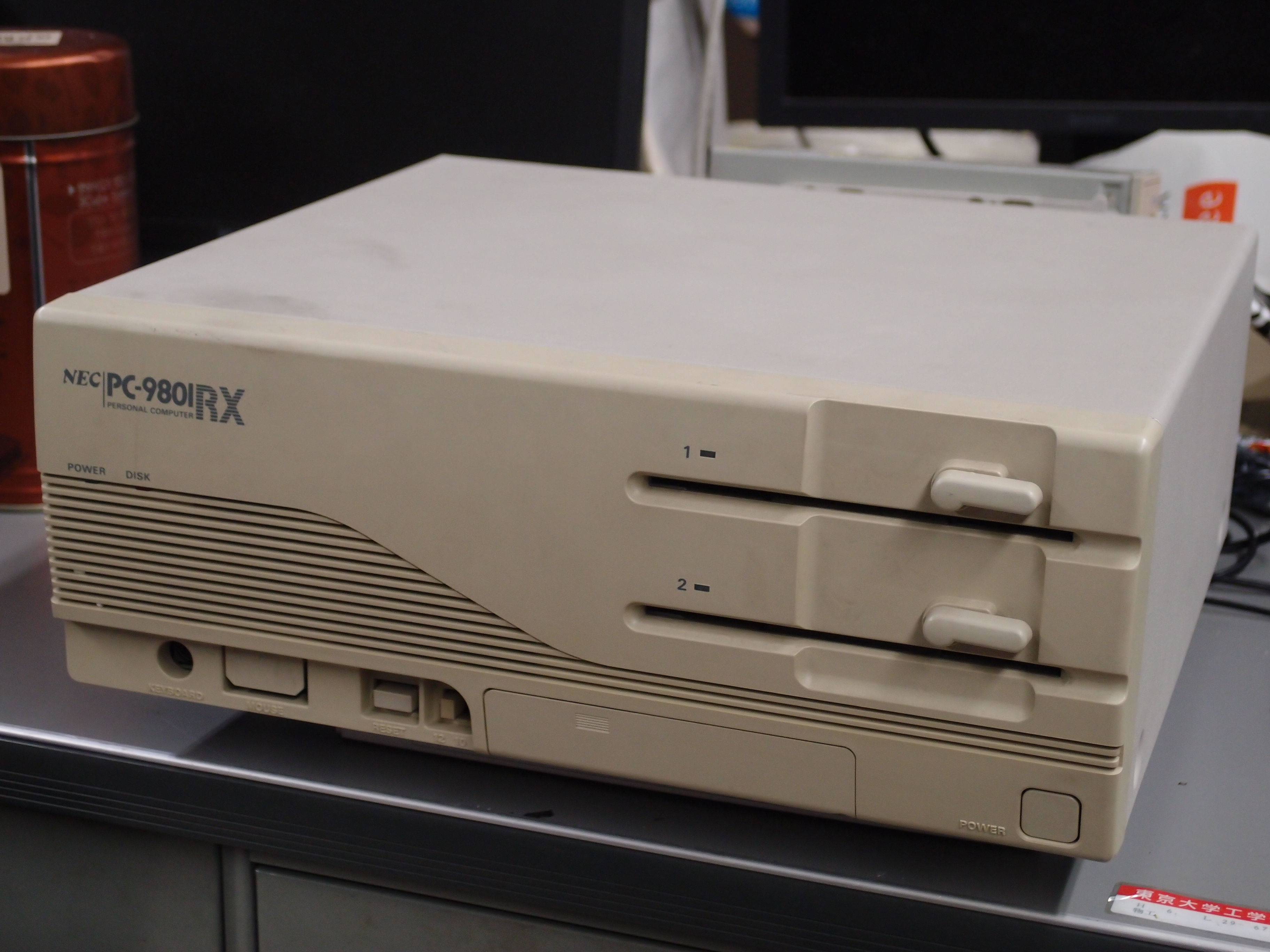 NEC PC-9801RX, an NEC PC-9801 personal computer with an Intel 80286 CPU.